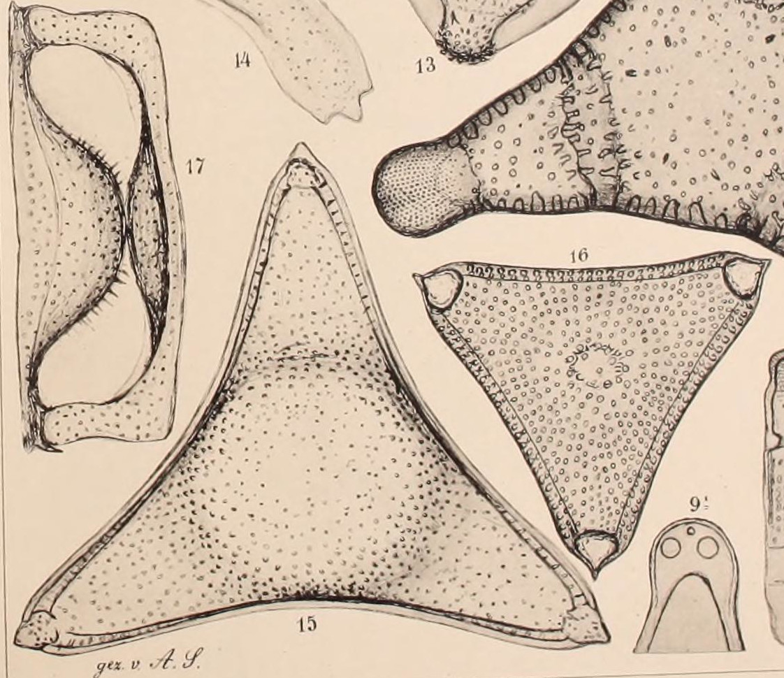 1 5 17. Trinacria ventricosa Gr. & St.